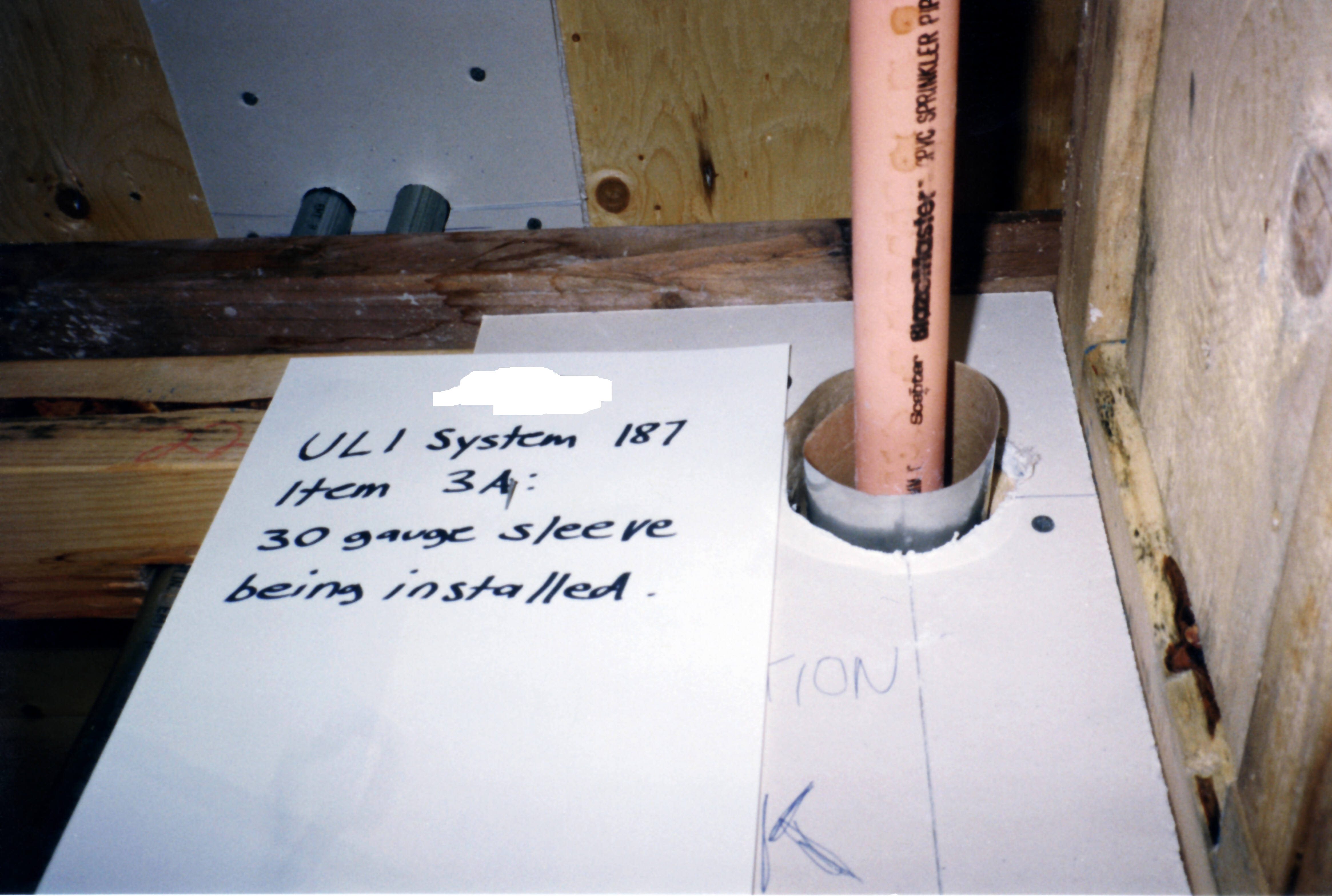 CPVC Scepter Blazemaster fire sprinkler pipe in a firestop mock-up under construction at Mission Manor, Mission, BC, Canada